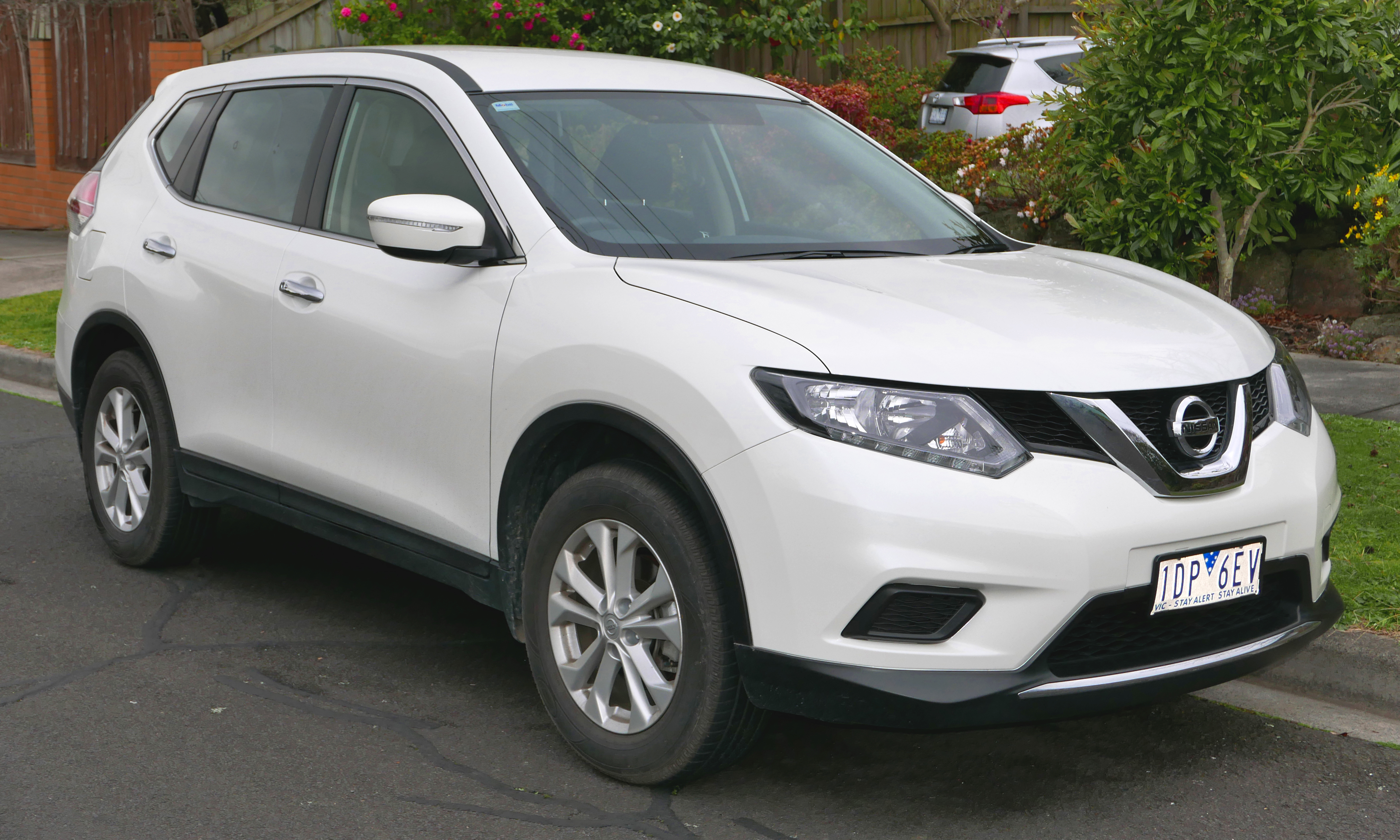 2014 Nissan X-Trail (T32) ST 2WD wagon. Photographed in Doncaster East, Victoria, Australia. Vehicle registration enquiry resultsJurisdictionVictoriaRegistration1DP6EVChassis codeJN1TBAT32A0003822Engine codeQR25157136LCompliance date2014-11Year of manufacture2014